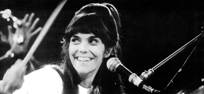 Publicity photo of Karen Carpenter from Billboard, November 1973* There are no copyright markings as can be seen at the full view link. A&M did not mark this special ad section with copyright mark(s); the Billboard copyright covers editorial content only-not advertisements, which would need to have their own copyrights for protection. These pages are marked "Special Section sponsored by The Carpenters" at page bottoms. see page 14 Special section for mark. The ad is not covered by any copyrights for Billboard. US Copyright Office page 3-magazines are collective works (PDF) "A notice for the collective work will not serve as the notice for advertisements inserted on behalf of persons other than the copyright owner of the collective work. These advertisements should each bear a separate notice in the name of the copyright owner of the advertisement."